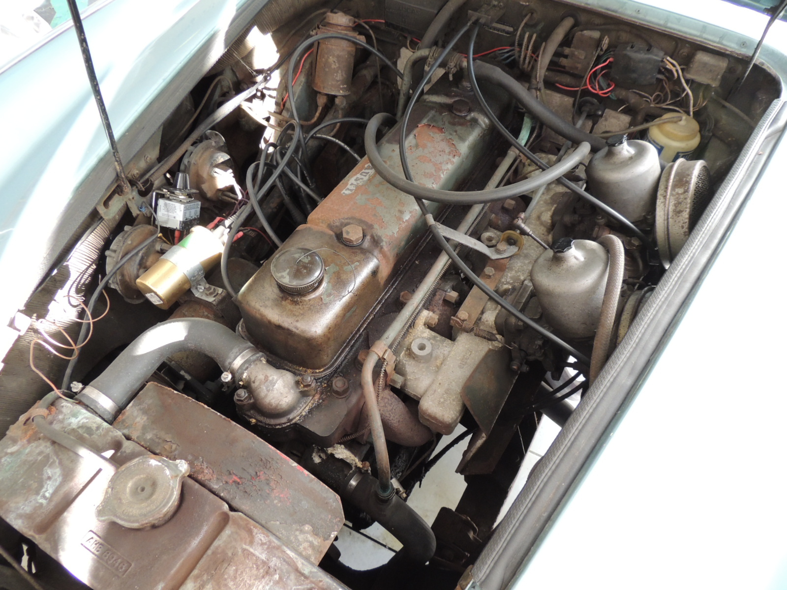 Austin-Healey 3000 Mark III (DVLA) first registered 24 November 1967, 2912cc